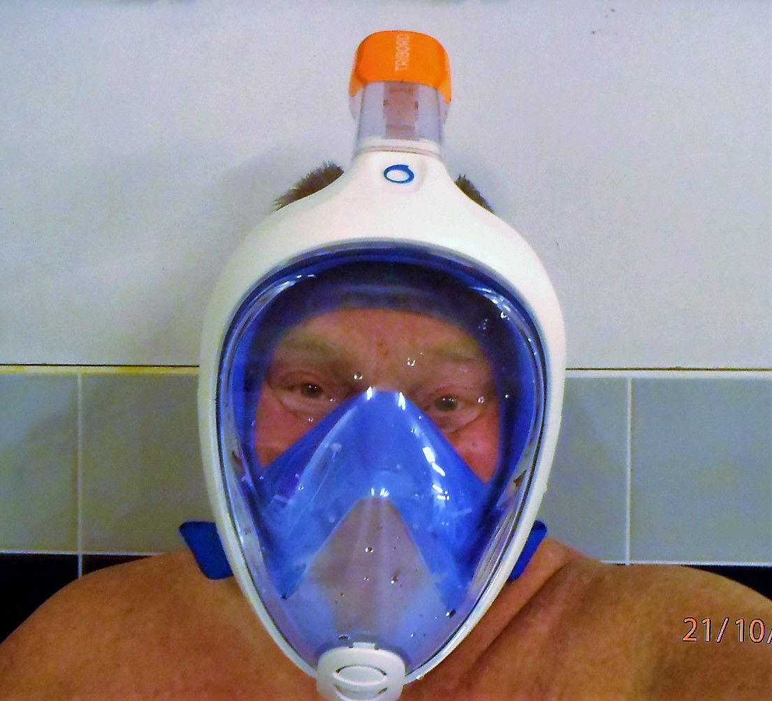 Although originally intended for use in the sea, often used for pool swimming as a swim aid especially by those with neck or back problems for whom the "head down" attitude in the water is beneficial. These masks are also useful for those who may have problems breathing naturally while swimming. Looking at the snorkel the central intake channel is clear however the two outer channels exhibit the condensation from the user's exhaled breath. It must be emphasised that swimming with a snorkel mask is completely different from using a conventional mask and snorkel as there is nothing in the mouth and the nose is completely open.